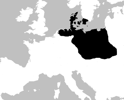 Area of the TRB culture (J.P.Mallory - EIEC p.596)